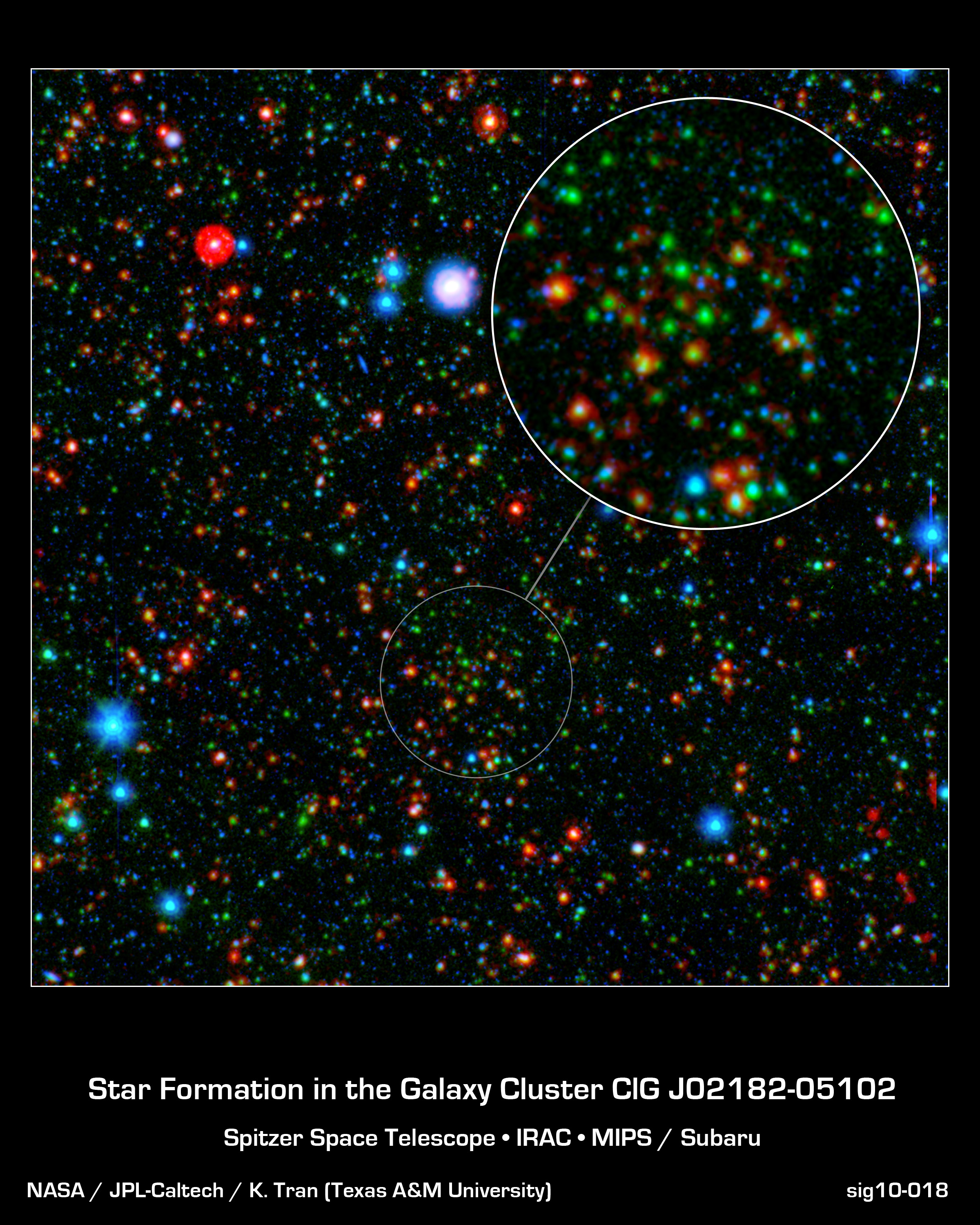 Astronomers have found that stars are forming more rapidly in the center of a distant galaxy cluster than at its edges, which is completely reversed from galaxy clusters seen in the local universe. This cluster, designated CLG J02182-05102, is shown in the call-out. The image combines infrared light from NASA's Spitzer Space Telescope with visible light from Japan's Subaru telescope atop Mauna Kea, Hawaii. This sensitive exposure captures galaxies that are relatively local along side some that date back almost 10 billion years, soon after the Big Bang. The most distant galaxies stand out clearly in the infrared, rendered here in green and red. What is noteworthy is how many of these galaxies are particularly bright at the longest infrared wavelengths, appearing red in this image. This glow indicates these ancient galaxies are still actively forming stars, even near the core of the cluster. In our local portion of the universe, the cores of galaxy clusters are known to be galactic graveyards full of massive elliptical galaxies composed of old stars. The group's discovery holds potentially compelling implications that could ultimately reveal more about how such massive galaxies form. Now that they have pinpointed the epoch when galaxy clusters are making the last of their stars, astronomers can focus on understanding why massive assemblies of galaxies transition from very active to passive. The galaxies here may represent a missing link between the active galaxies and the quiescent behemoths that live in the local universe. Infrared light from Spitzer at wavelengths of 4.5 and 24 microns is rendered in green and red, respectively. Subaru observations of visible light at a wavelength of 0.7 microns are rendered in blue. These data are part of the Spitzer Wide-area InfraRed Extragalactic (SWIRE) survey.